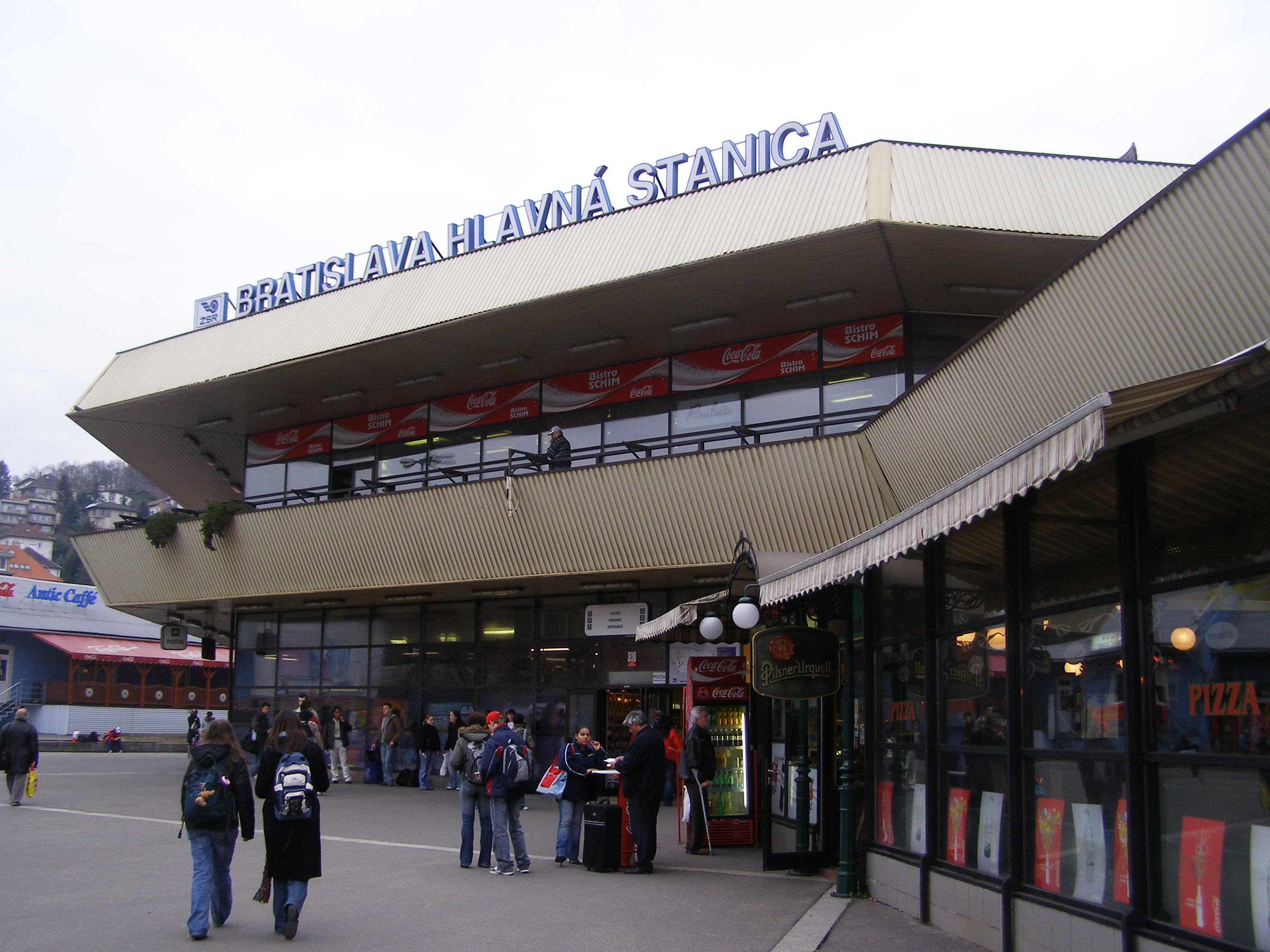 Main building of the Bratislava main train station, Slovakia